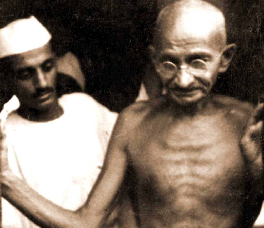 Beohar Rajendra Sinha helping his guest Mahatma Gandhi on the staircase of Beohar-Palace in Jubbulpore/Jabalpur in 1933 during Bapu's historic Harijan Yatra. From here, in Beohar Rajendra Sinha’s car, Gandhiji traveled with him to numerous public meetings, not just in Jubbulpore/Jabalpur city but also in nearby Mandla, Narsinghpur, etc. Most of the materials that Gandhiji used during his stay and travel are very well conserved by the host's grandson Beohar Dr Anupam Sinha.